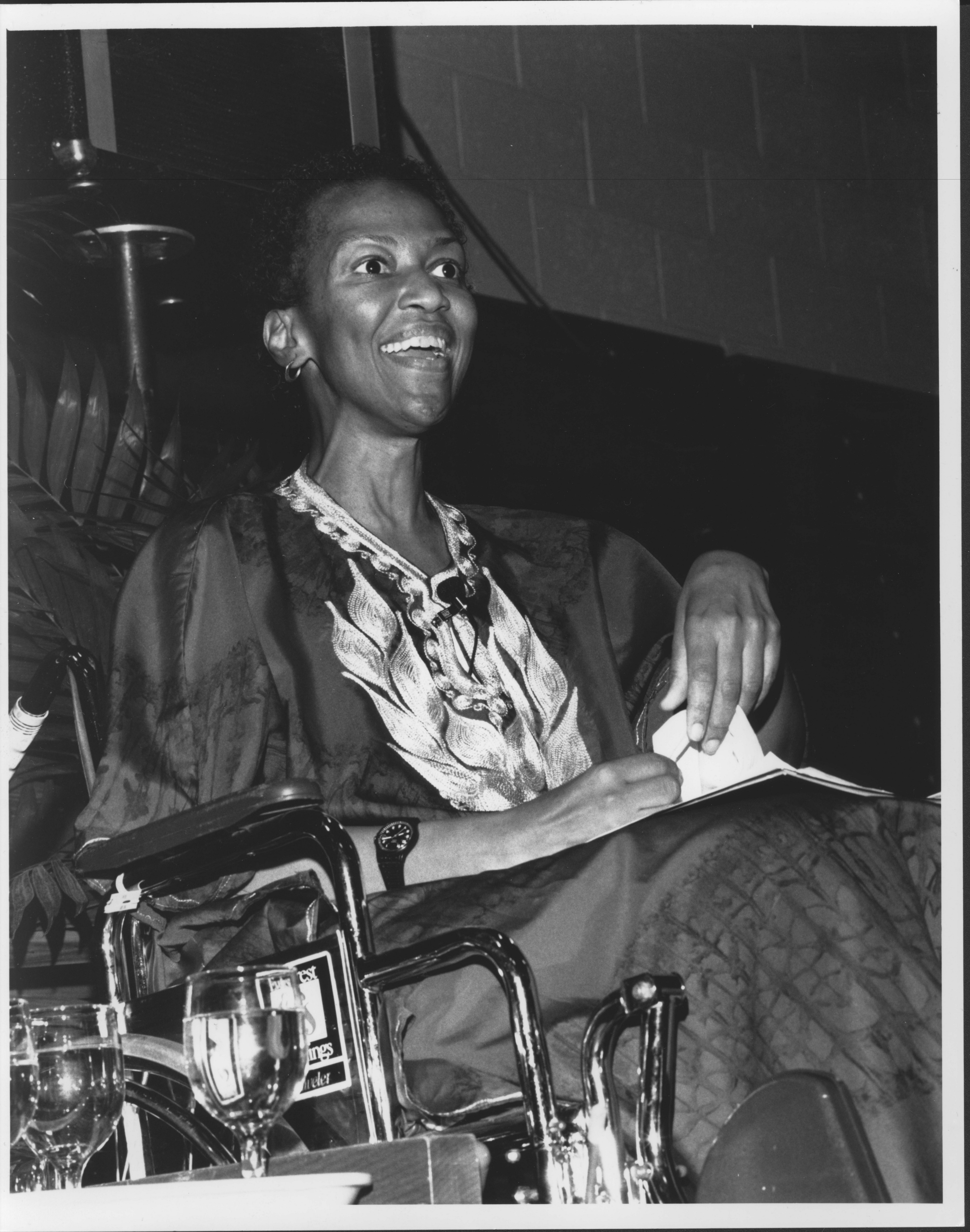 Photo taken at Walsh University event held on September 18, 1989.